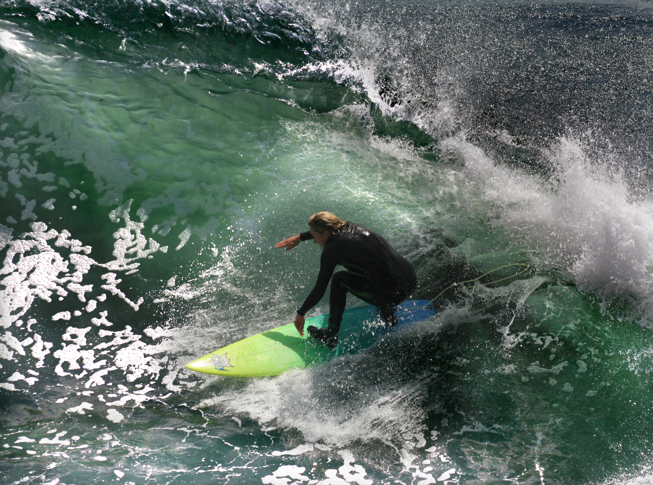 A California surfer. Santa Cruz and the surrounding Northern California coastline is a popular surfing destination; however, the year-round low temperature of the ocean in that region (averaging 57ºF/14ºC) necessitates the use of wetsuits.